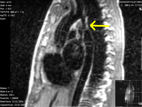 MRI picture of a coarctation of the aortic arch. Yellow arrow points at narrowing. Picture released with consent of my employer